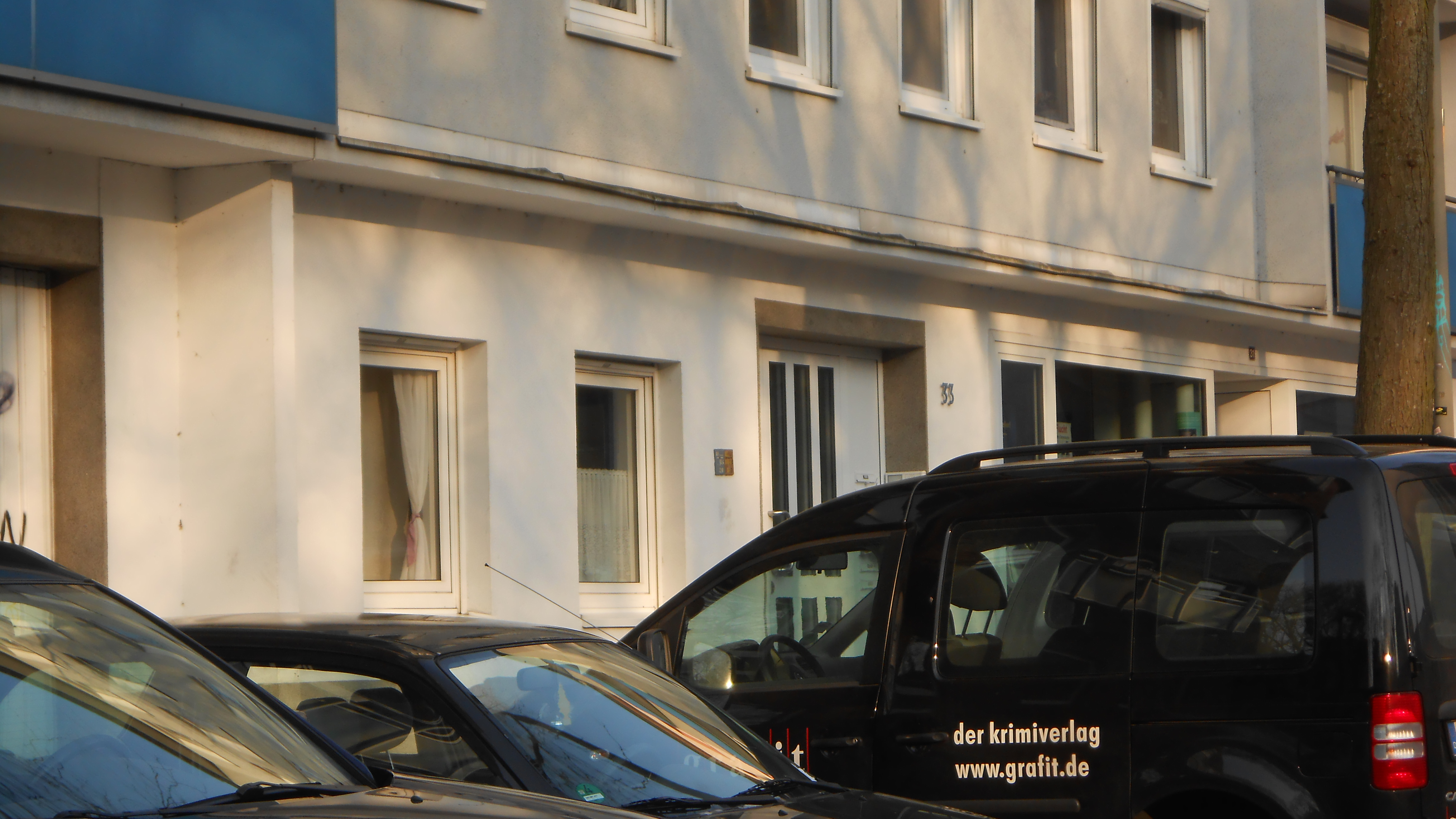 Car of the Grafit publishing house in front of their central office, in Dortmund.